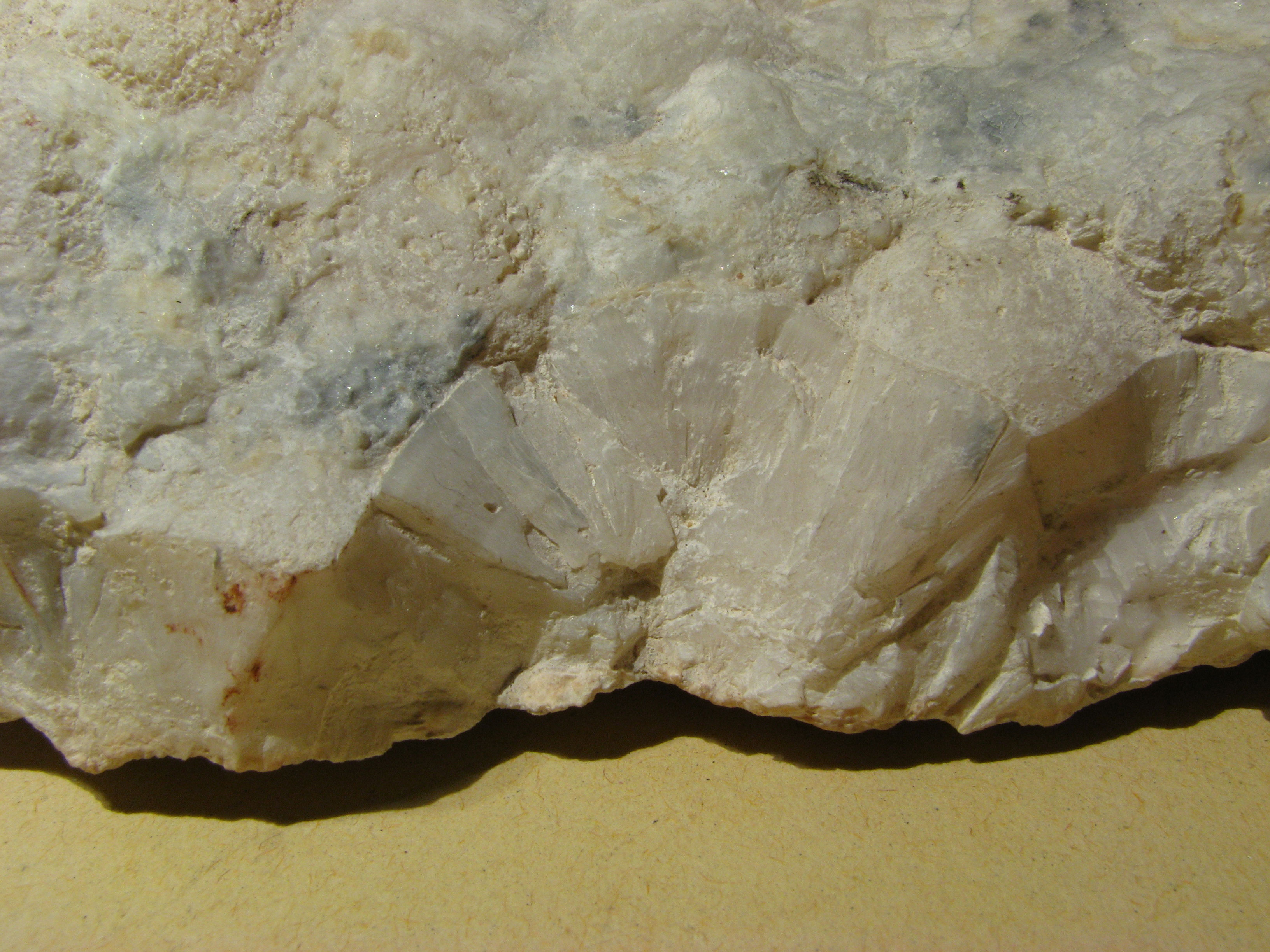 Xonotlite - fibrous-radiated, Vicenza, Veneto, Italy